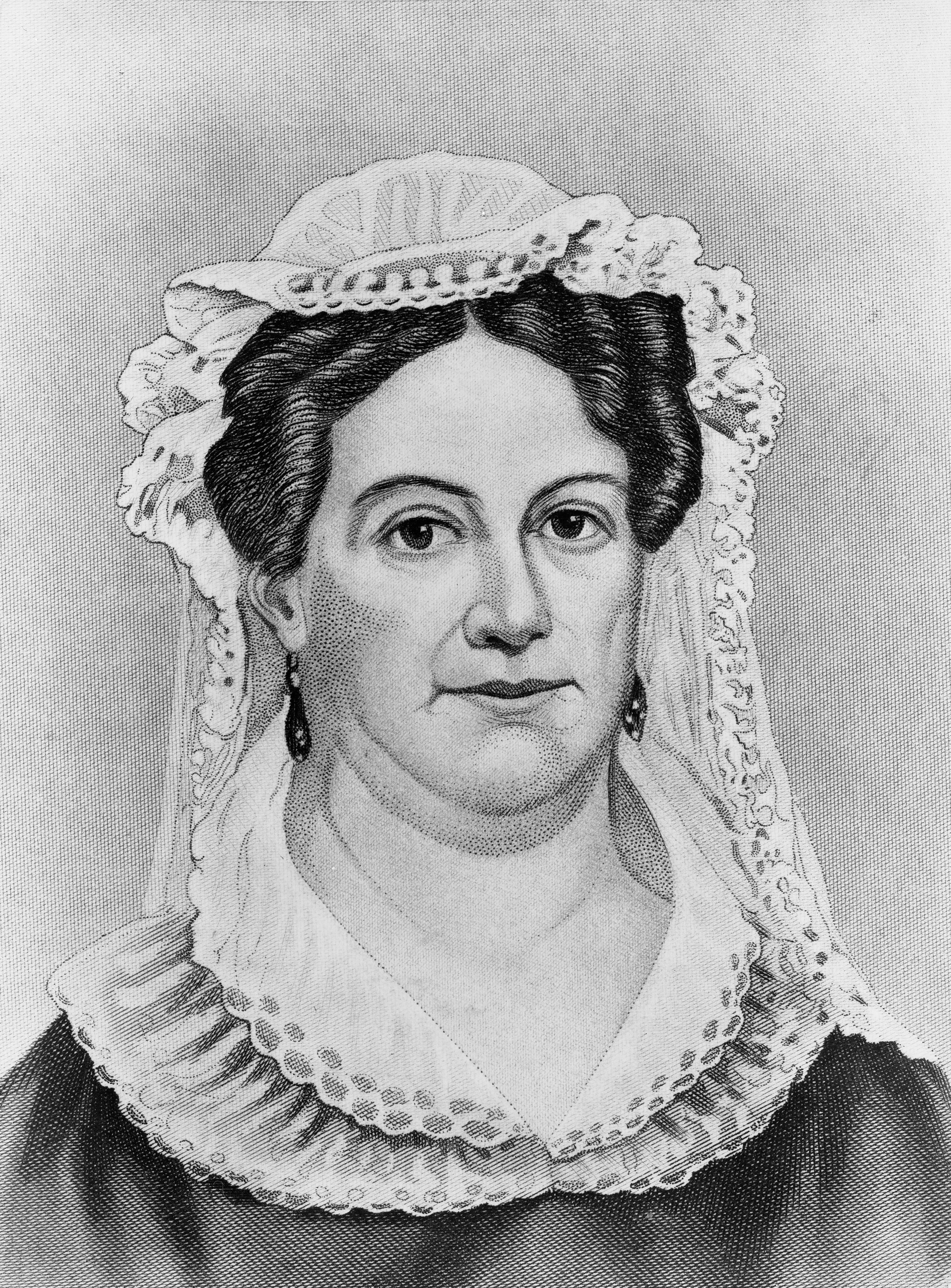 First Lady Rachel Jackson